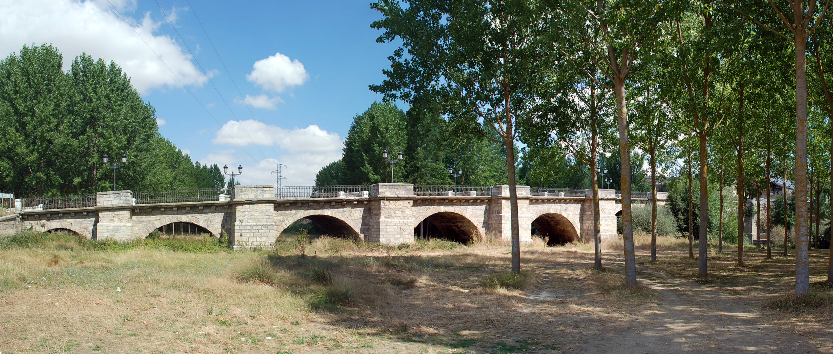 Bridge over Carrión river in Carrión de los Condes (Palencia, Castile and León).